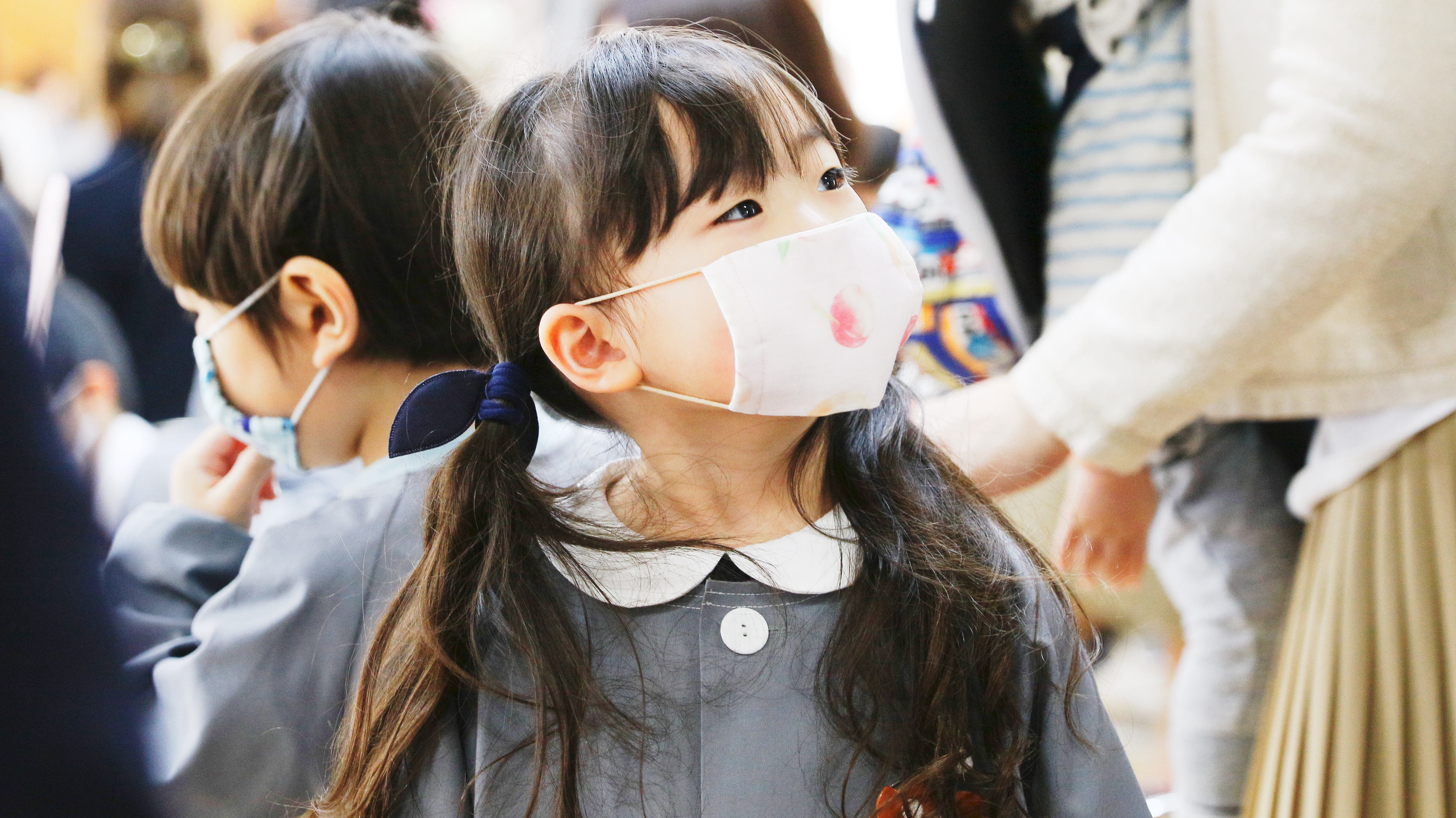 Children wearing cloth face masks in a kindergarten, Hokkaido, Japan.